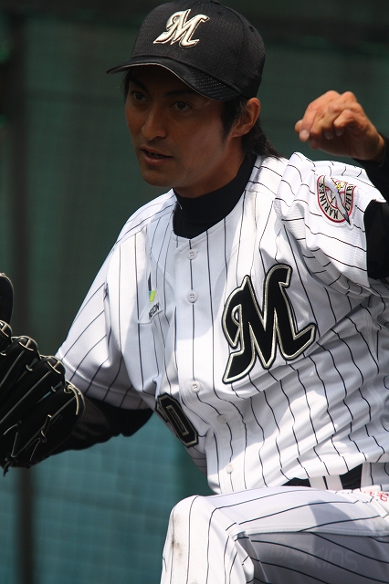 Yasutaka Hattori, pitcher of the Chiba Lotte Marines, at Lotte Urawa Baseball Ground.